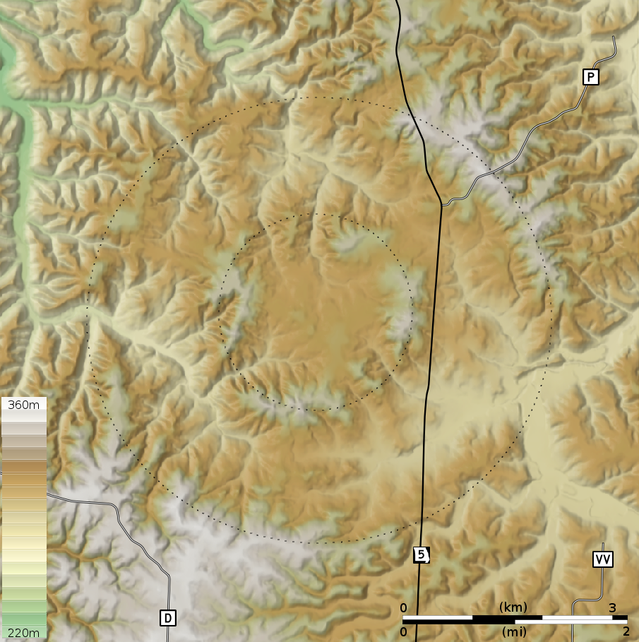 Shaded relief map of the Decaturville Crater in Missouri, USA, with visualization guides superimposed on the crater structure. This map is projected in UTM zone 15 north and can be georeferenced with this world file: 10.064984522557447 0 0 -10.064984522557447 520075.505596675037 4198521.476481481455